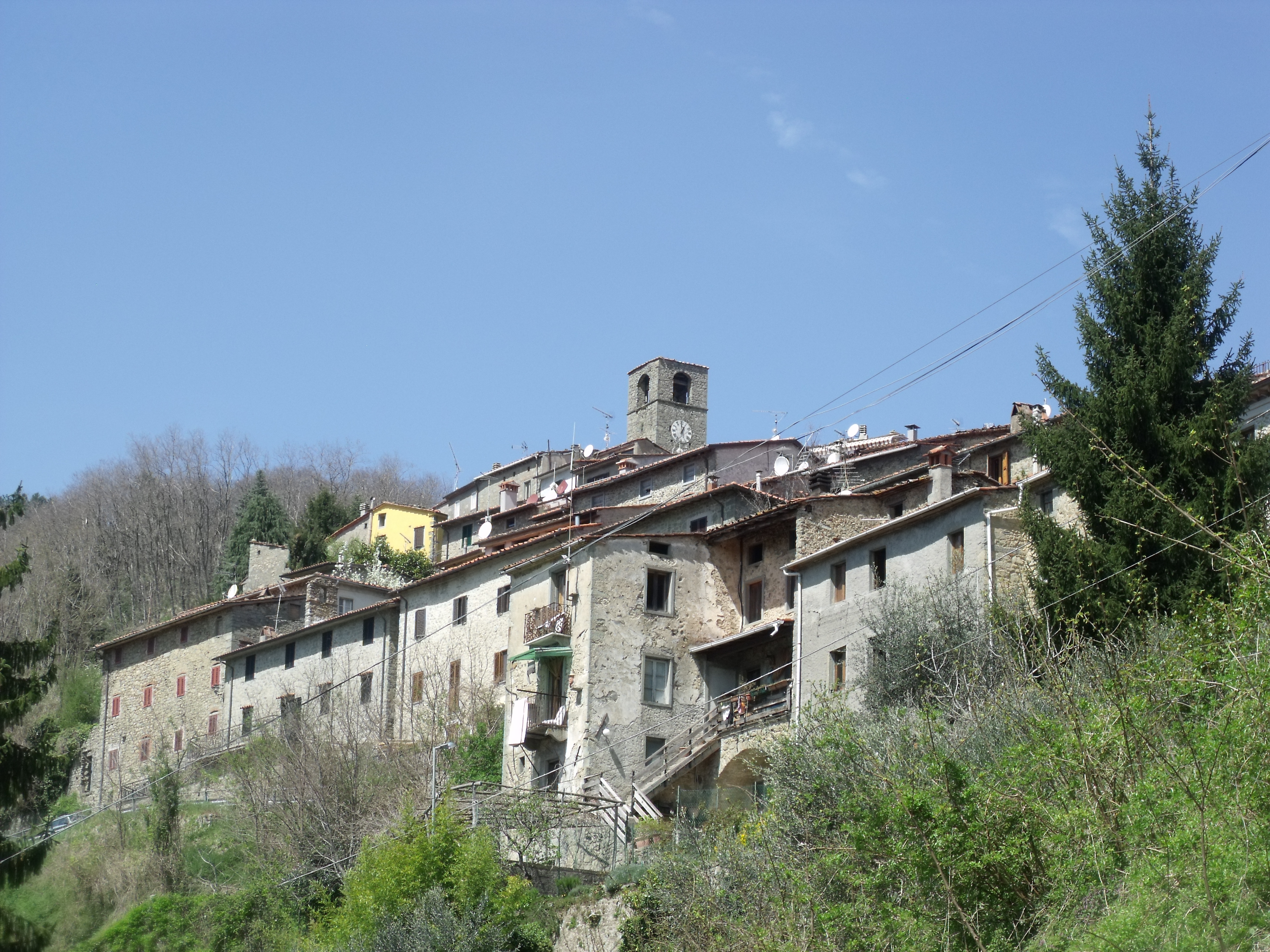 Panorama of Boveglio, hamlet of Villa Basilica, Province of Lucca, Tuscany, Italy